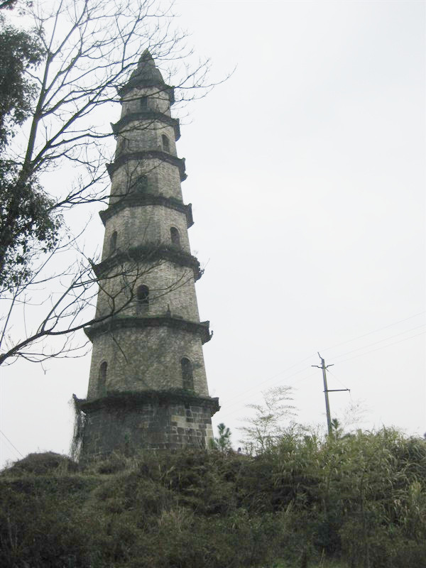 手机自拍，时间为2011年